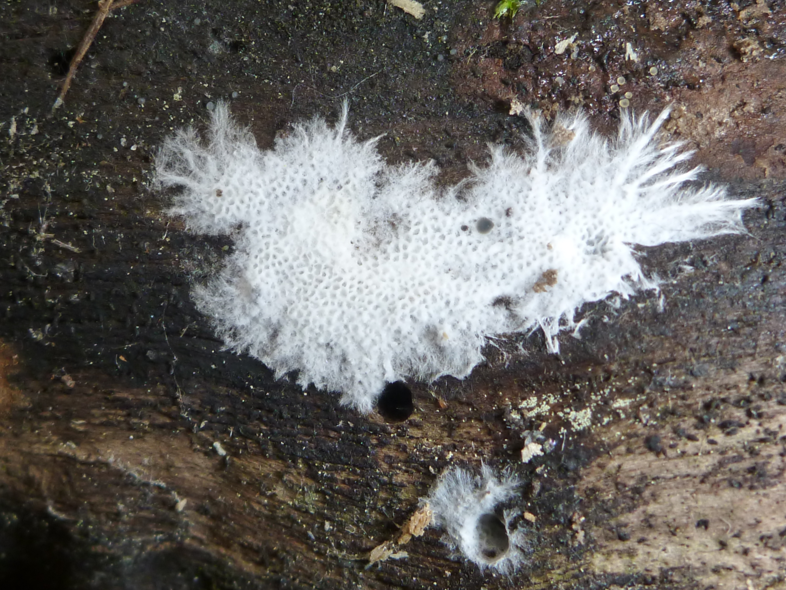 The resupinate (crust-like) fungus Anomoloma myceliosum. Photographed in Ottawa, Ontario, Canada.